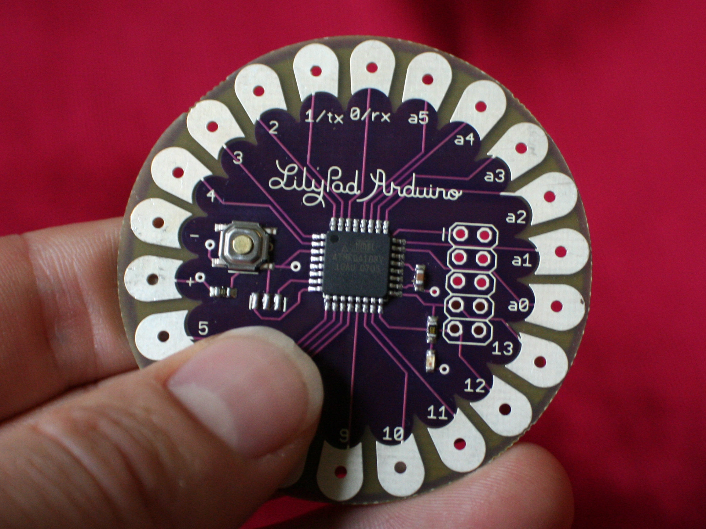 LilyPad Arduino Main Board 2007